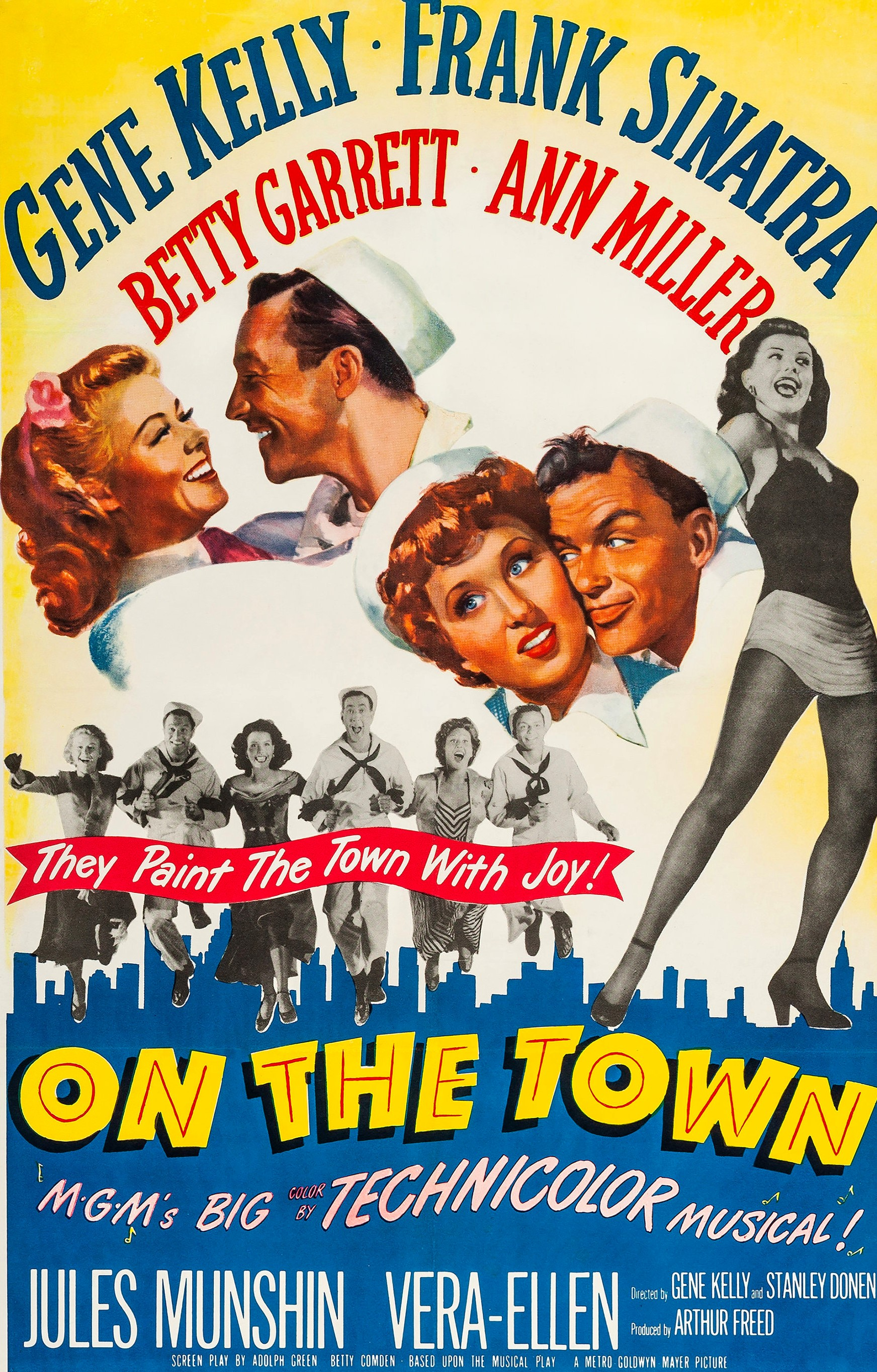 Theatrical release poster for the 1949 musical film On the Town, an adaptation of the 1944 stage musical of the same name.